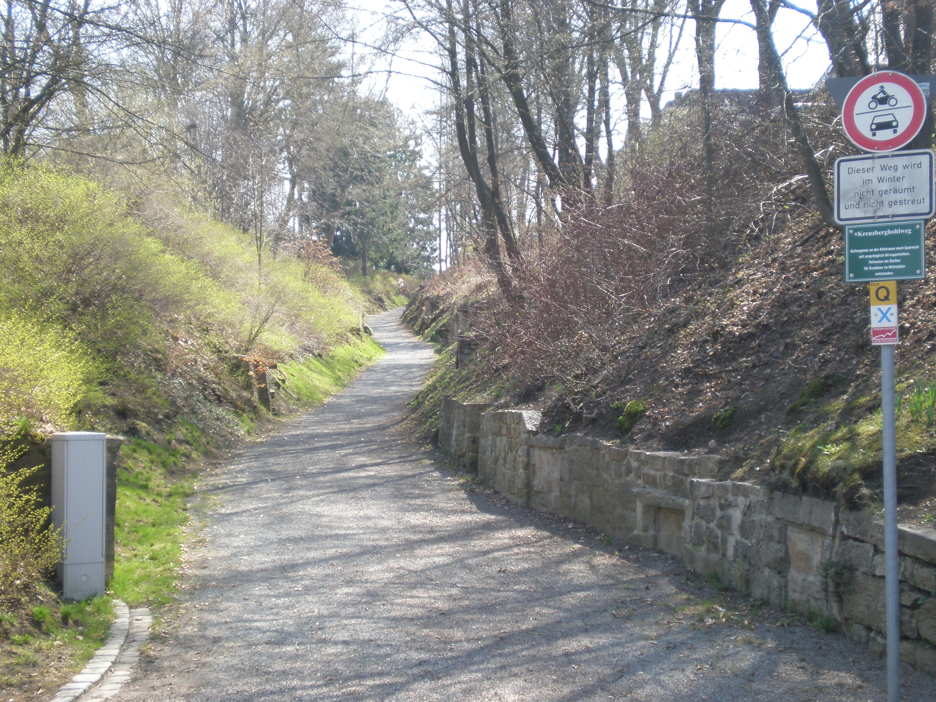 The Kreuzberghohlweg in Münchberg is the oldest trading route around the city.